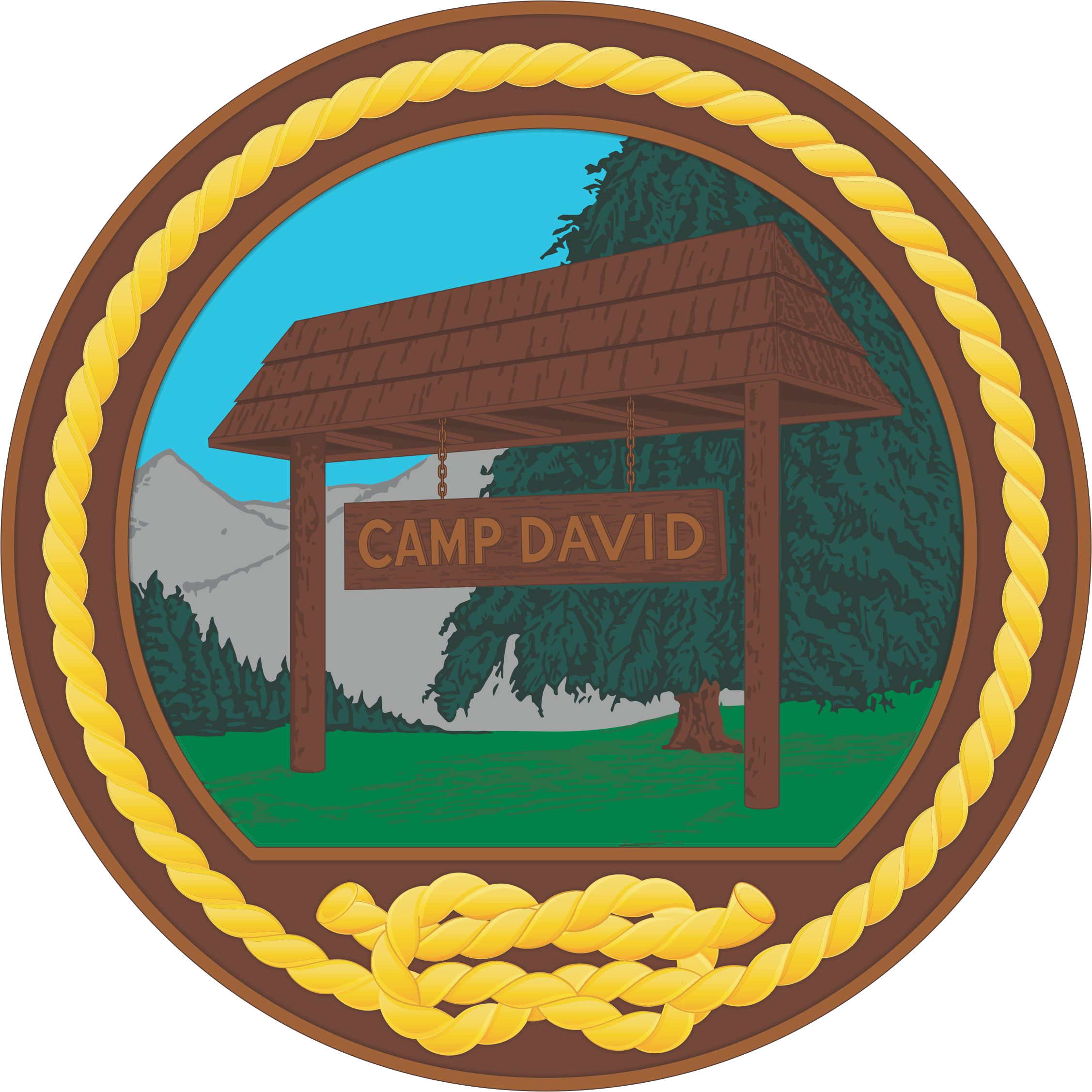 The official Camp David seal